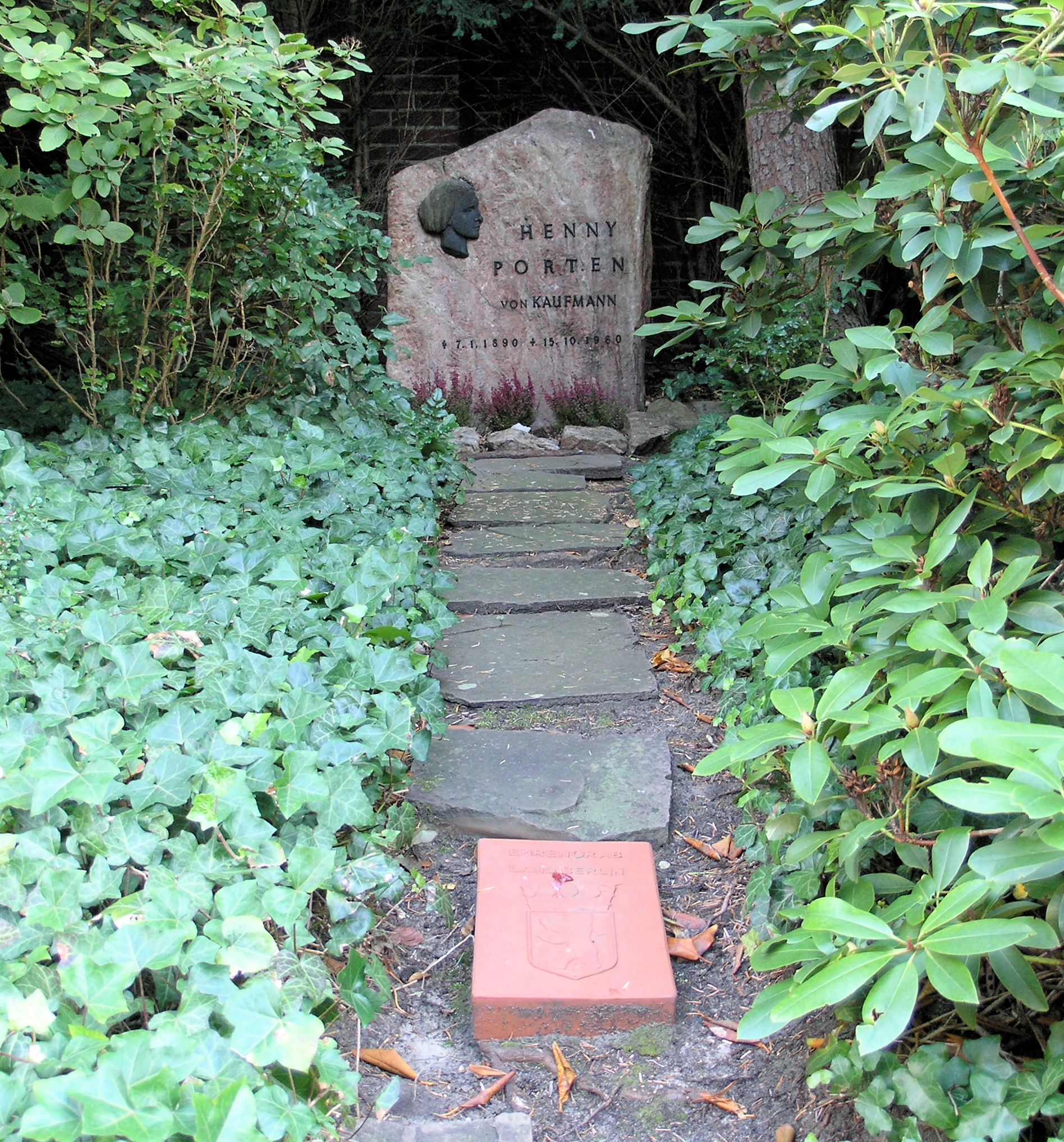 "Ehrengrab" (grave of honor), Henny Porten, Fürstenbrunner Weg 69, Berlin-Westend, Germany